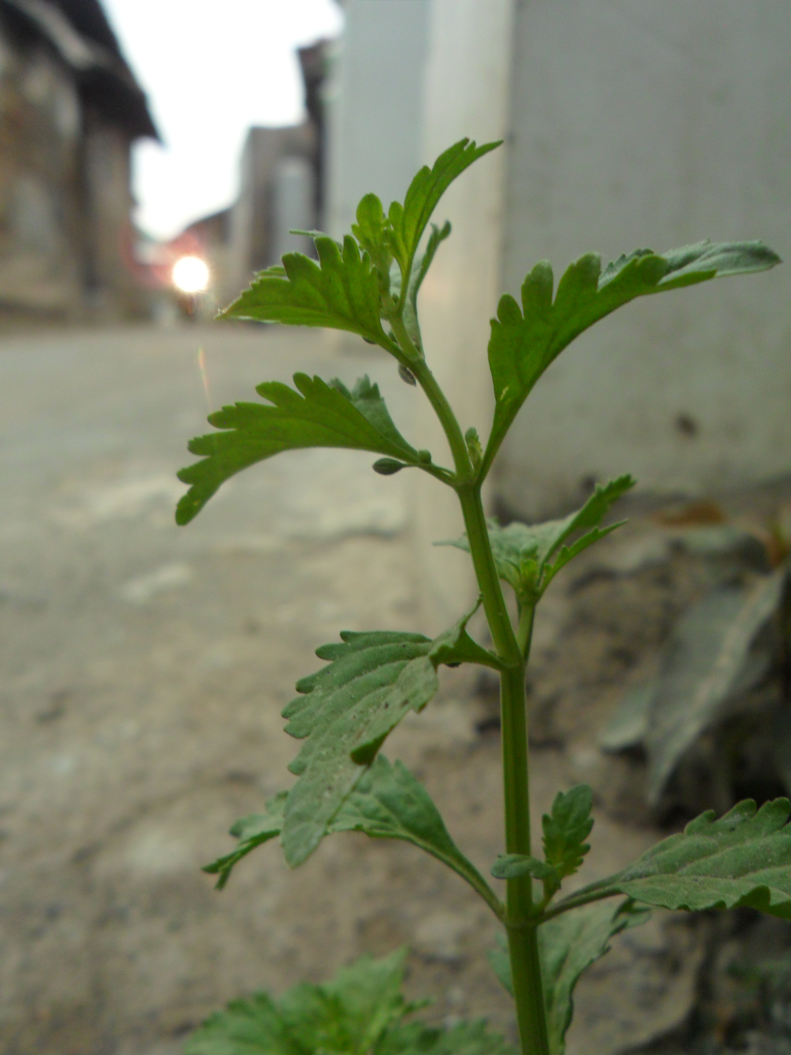 scoparia dulcis